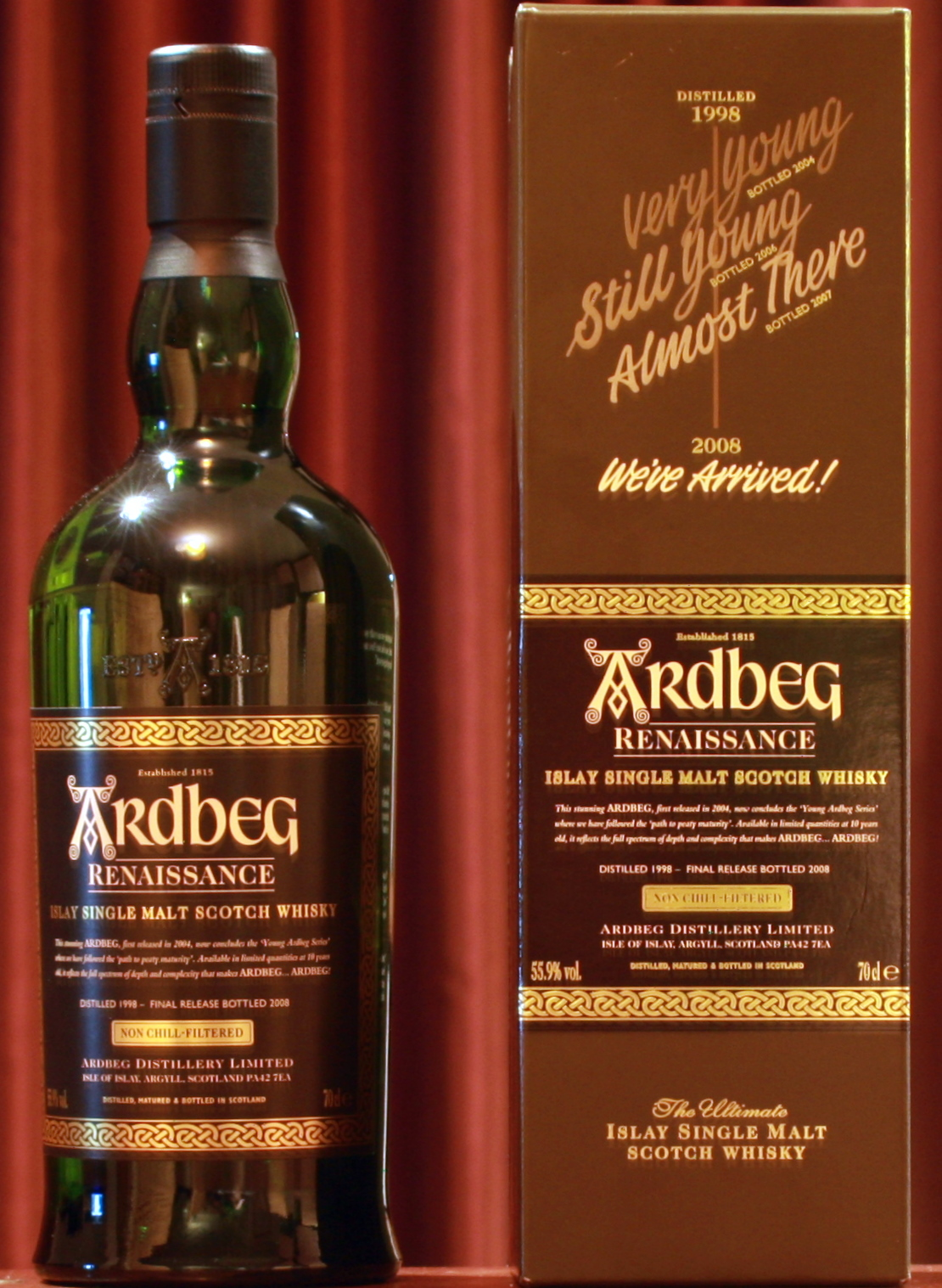 Ardbeg Renaissance Islay Single Malt Scotch Whisky